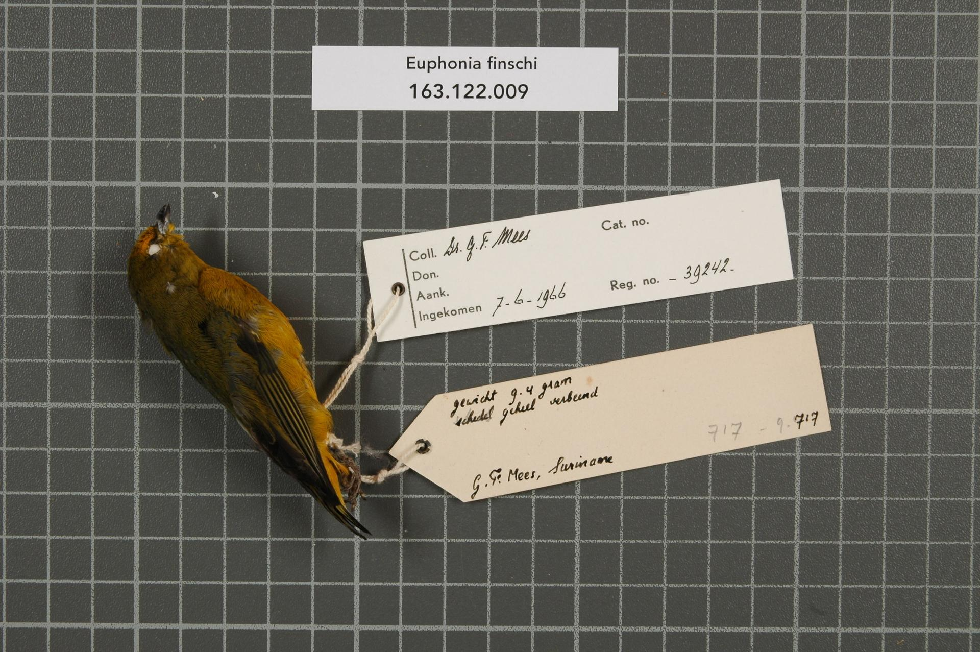 Euphonia finschi Sclater & Salvin, 1877